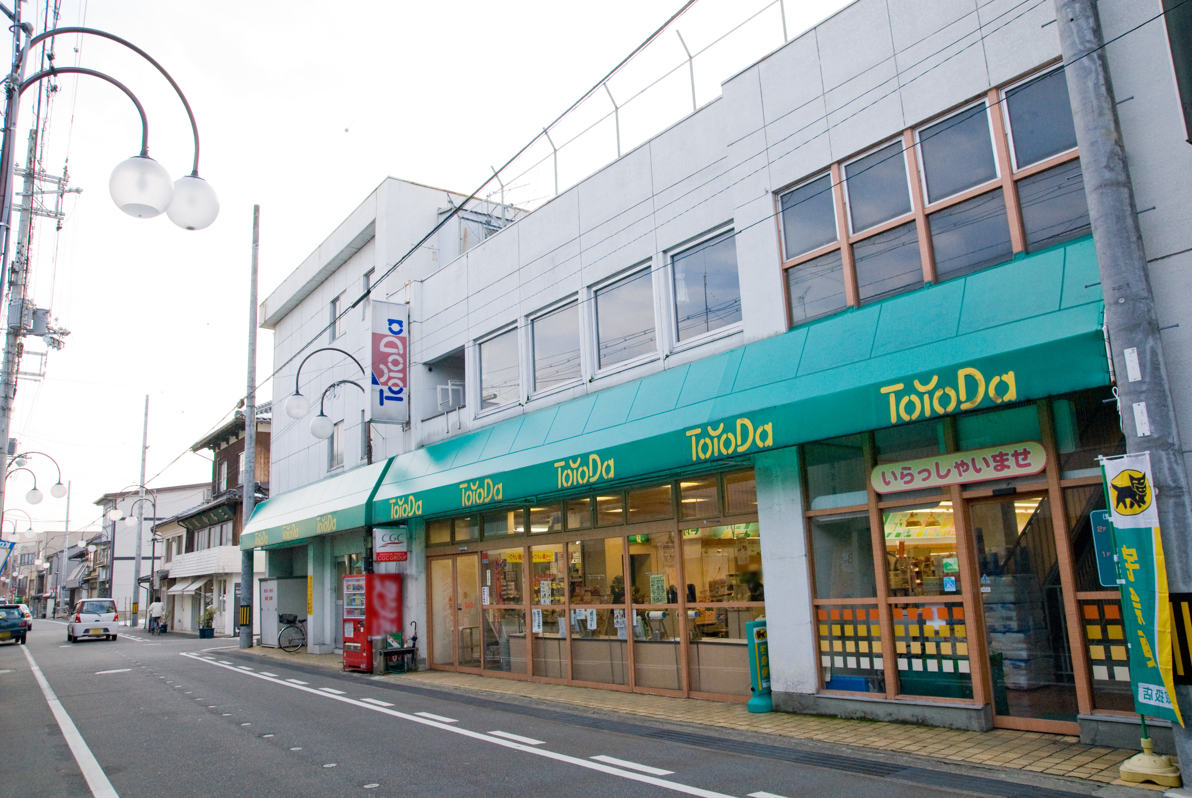 Super Market"TOYODA"Honten.